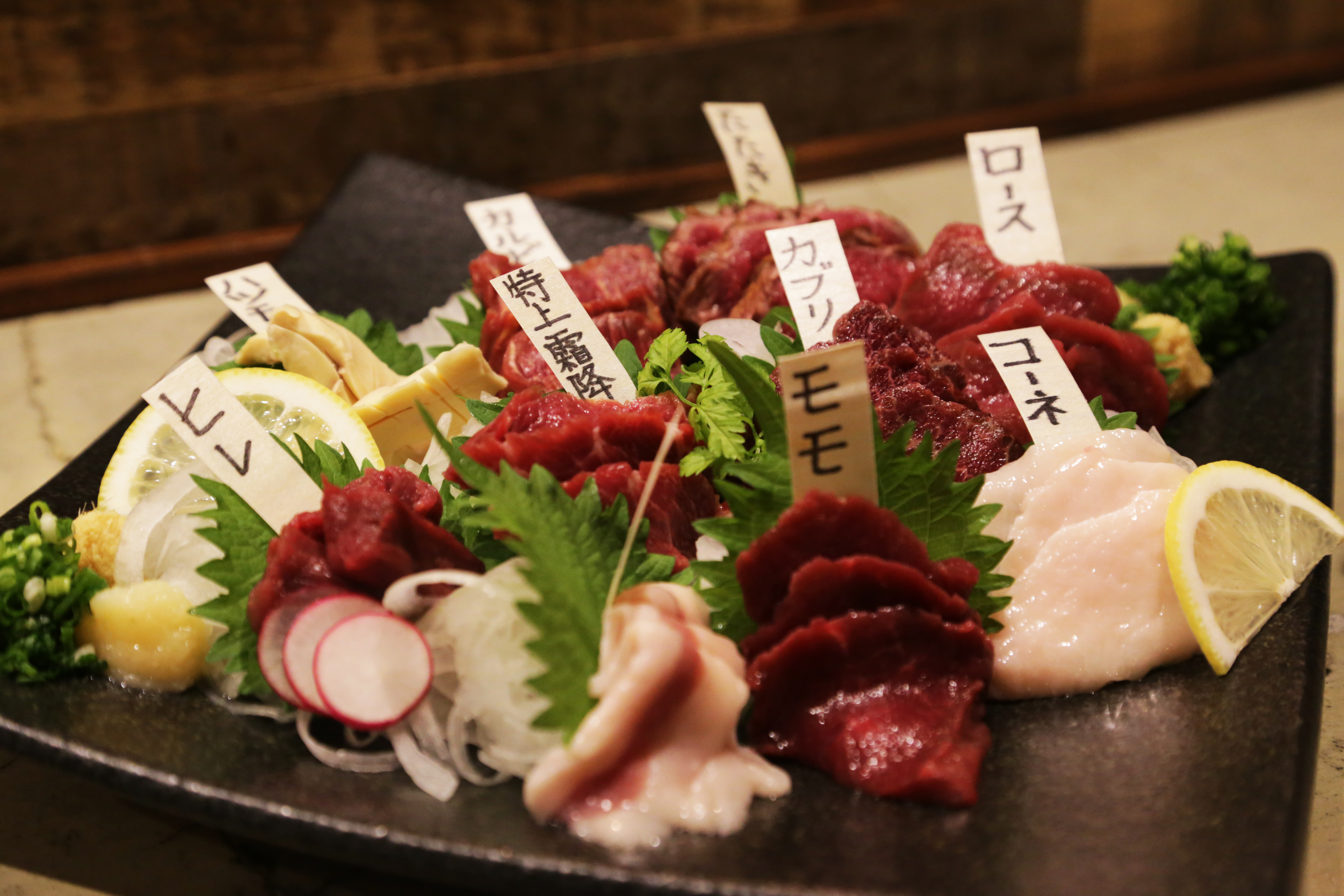 Horse meat, ate at DINING SAMAZAKURA, Asahikawa, Japan